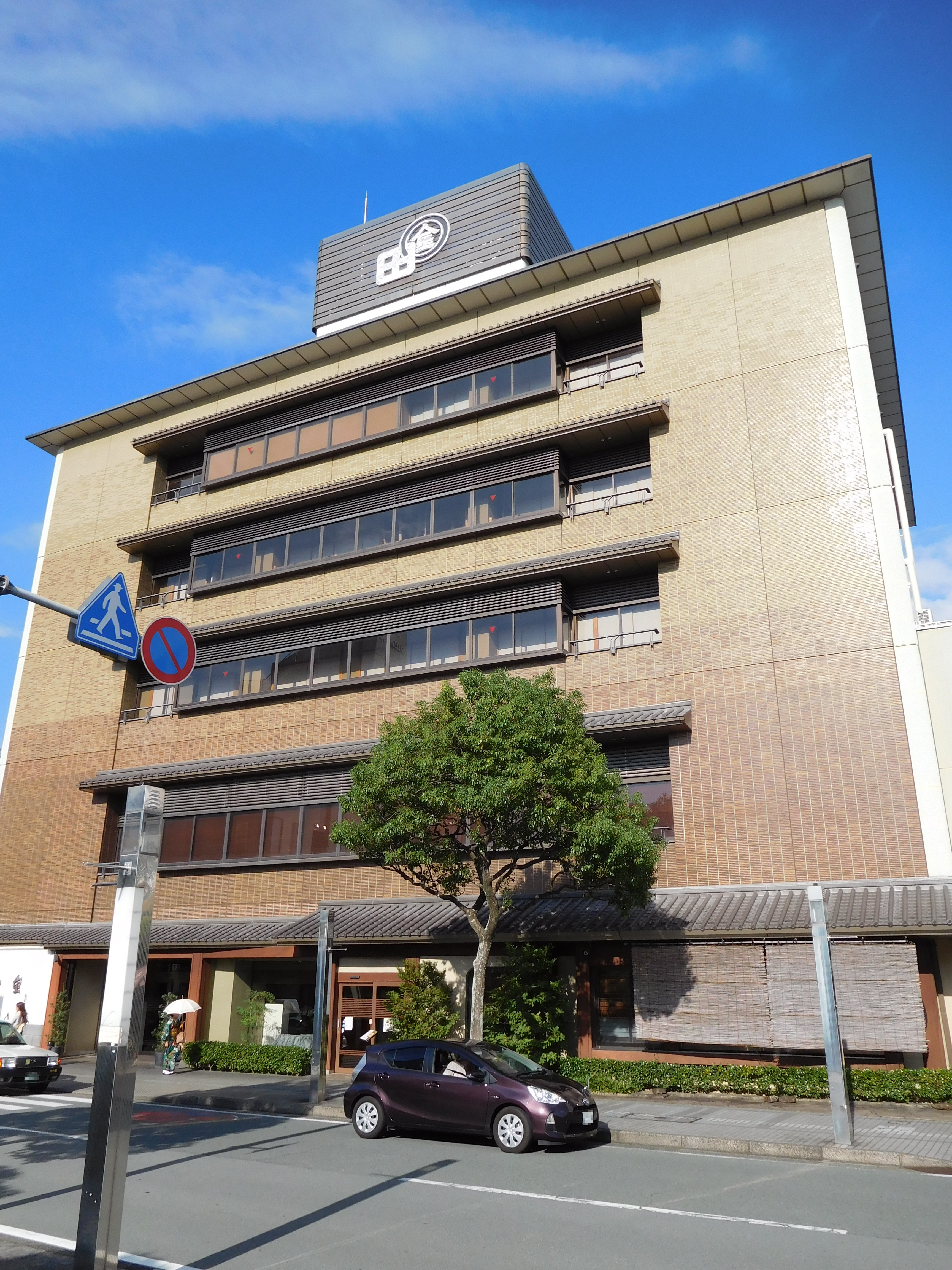 This is a sukiyaki restaurant "Wadakin" in Matsusaka, Mie, Japan.